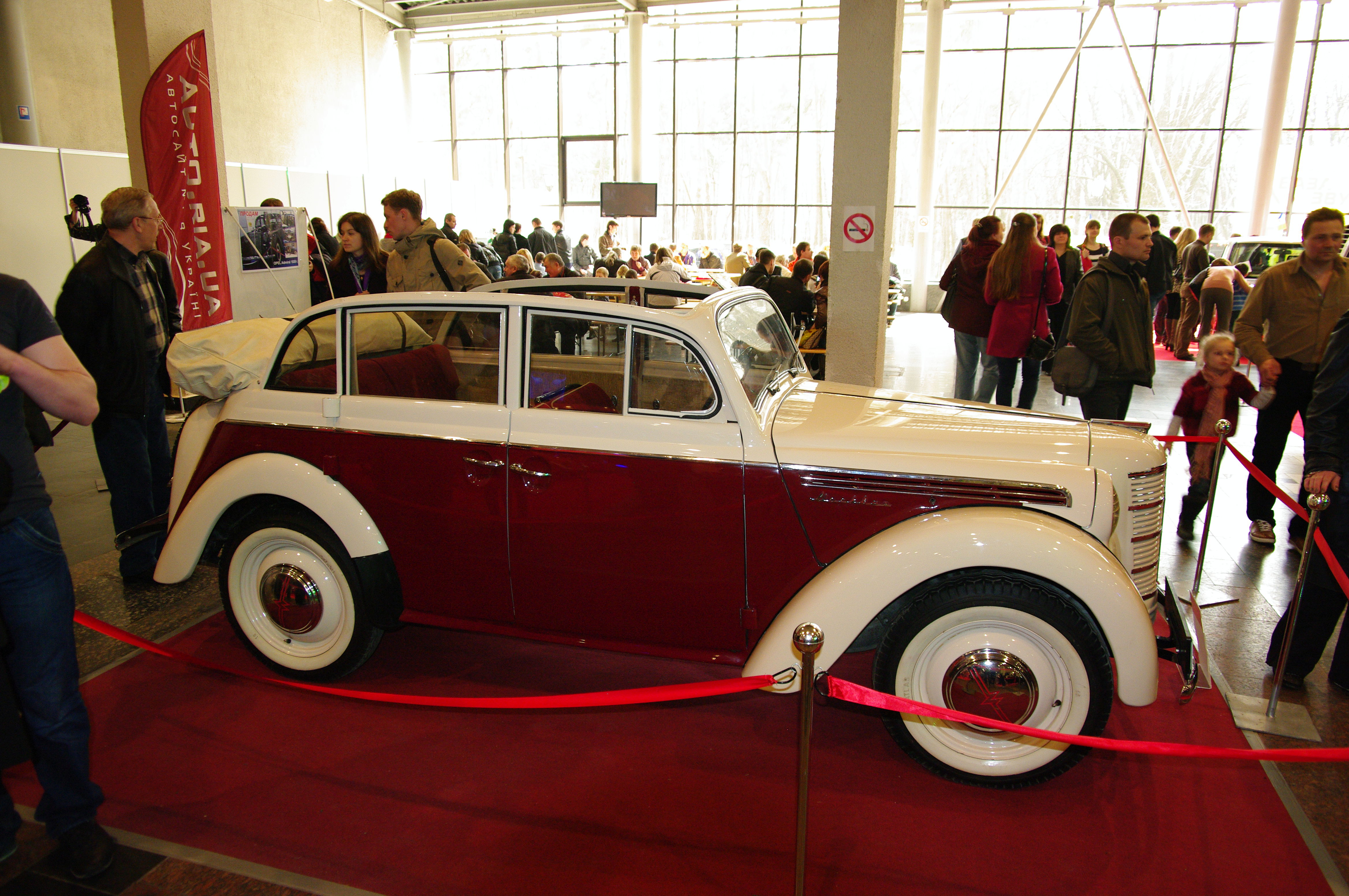 Kyiv Retro&Exotica 2013 exhibition